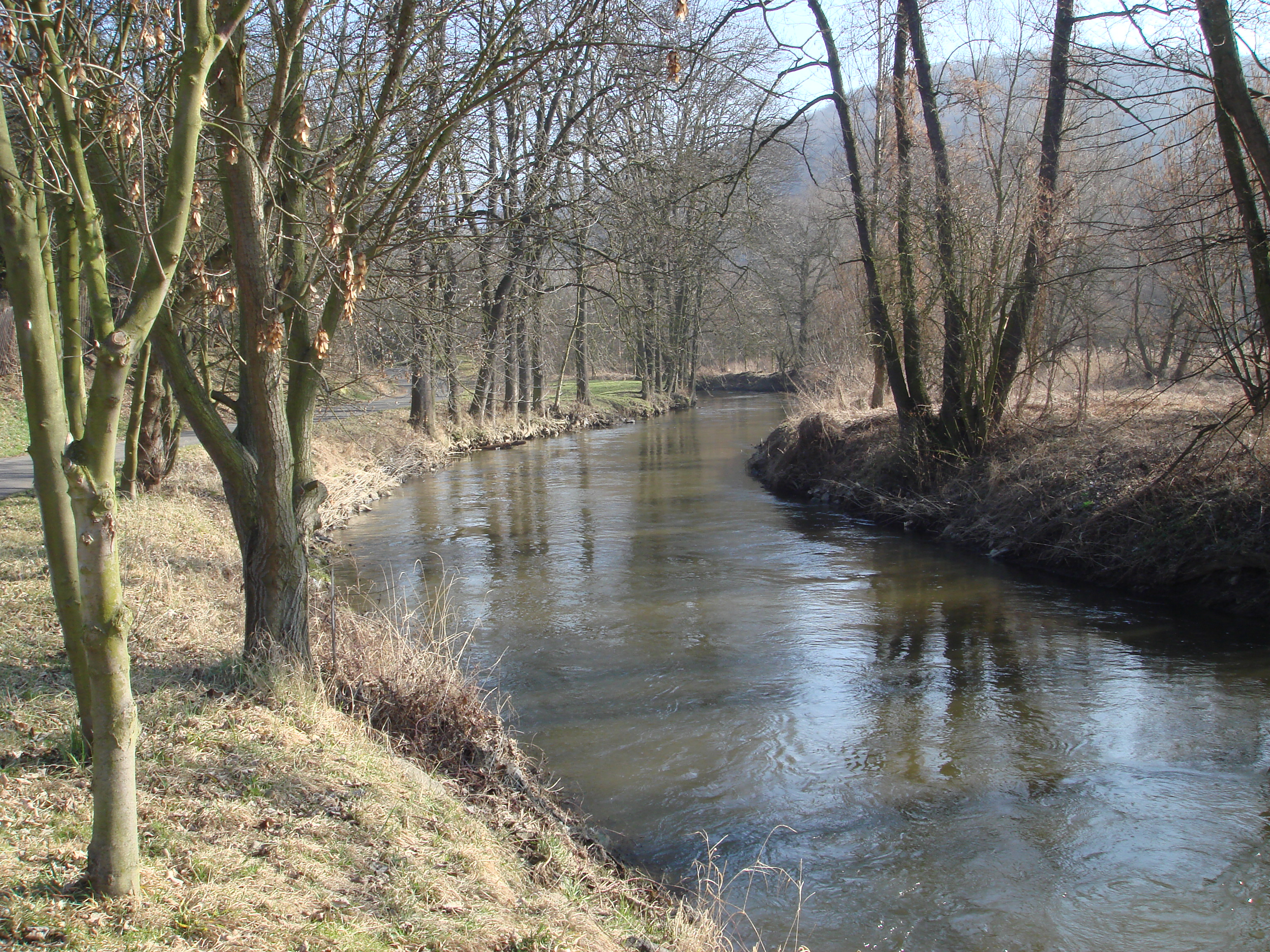 The river Bílina in Stadice (Ústí nad Labem Region, Czech Republic).